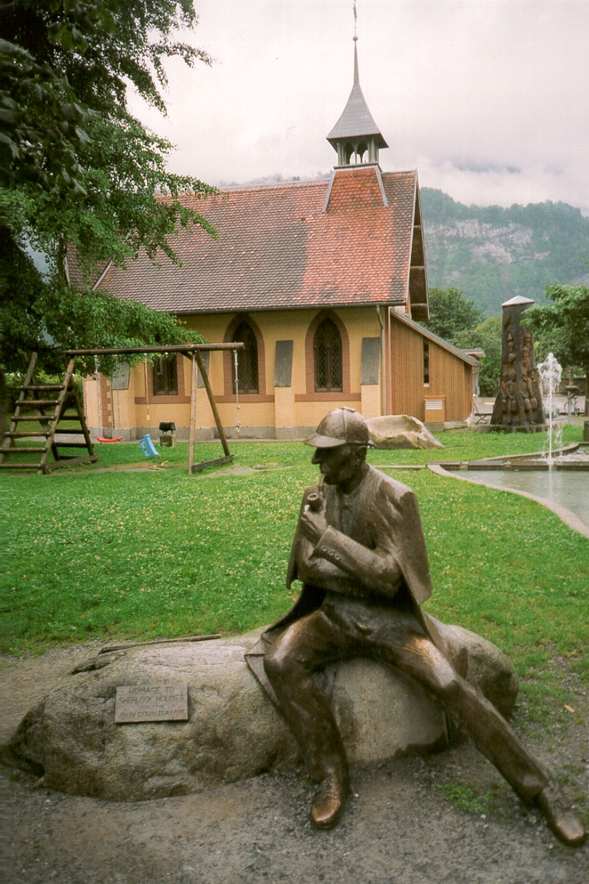 Tribute to Sherlock Holmes in Meiringen, village nearest Reichenbach falls. Arthur Conan Doyle Platz. cf. "The Final Problem". In the background is the English chapel, a cultural property of regional significance.